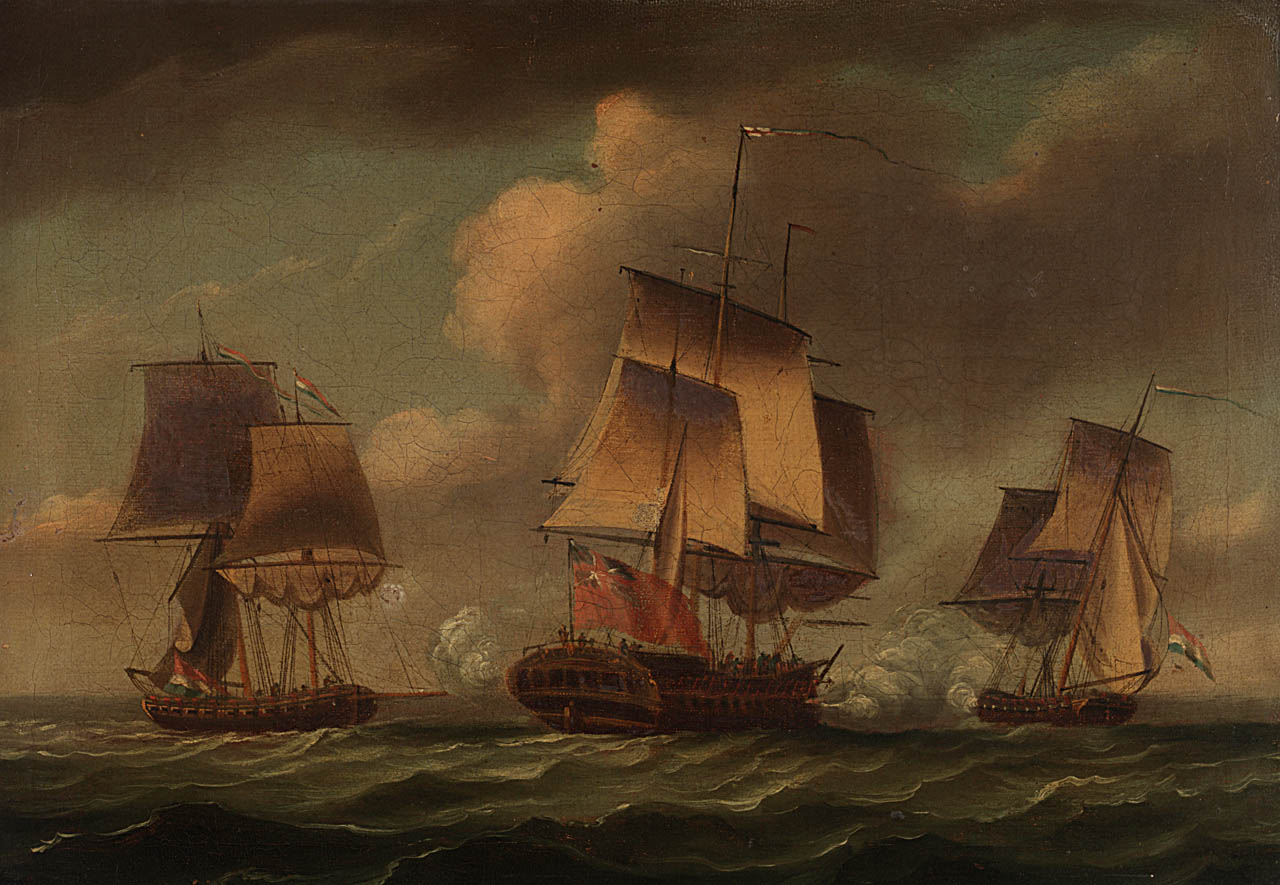 The 'Artois' capturing two Dutch privateers, 3 December 1781 'The Artois capturing two Dutch privateers, 3 December 1781' The names of the two captured Dutch privateers were 'Mars' and 'Hercules'; both were subsequently acquired by the RN and commissioned as brig-sloops 'Orestes' and 'Pylades' (see Rif Winfield, 'British Warships of the Age of Sail', p. 328). The Artois capturing two Dutch privateers 3rd December 1781